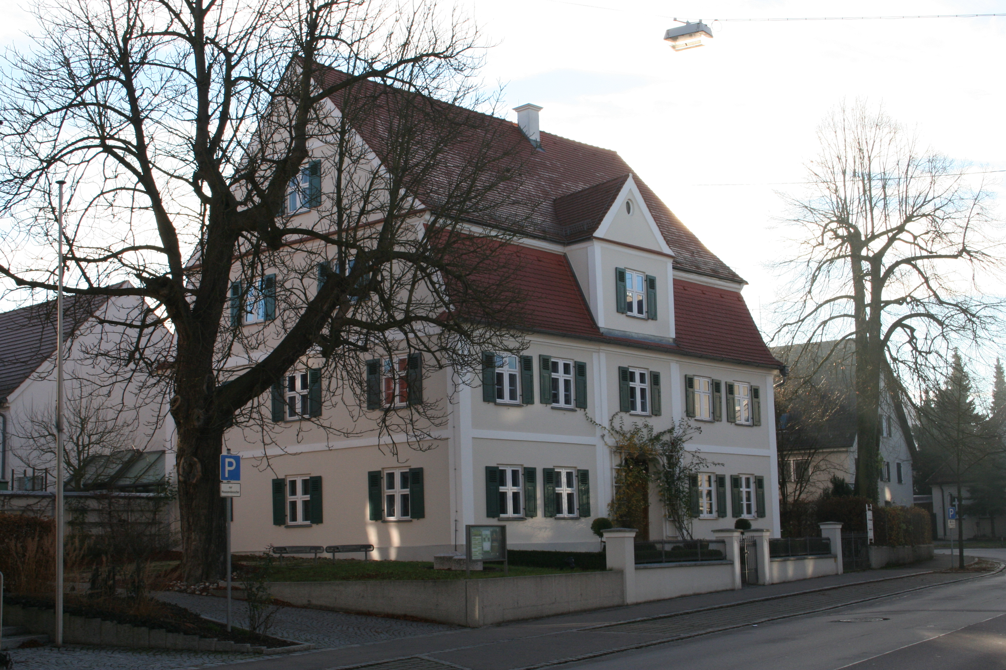 museum of local history in Krumbach